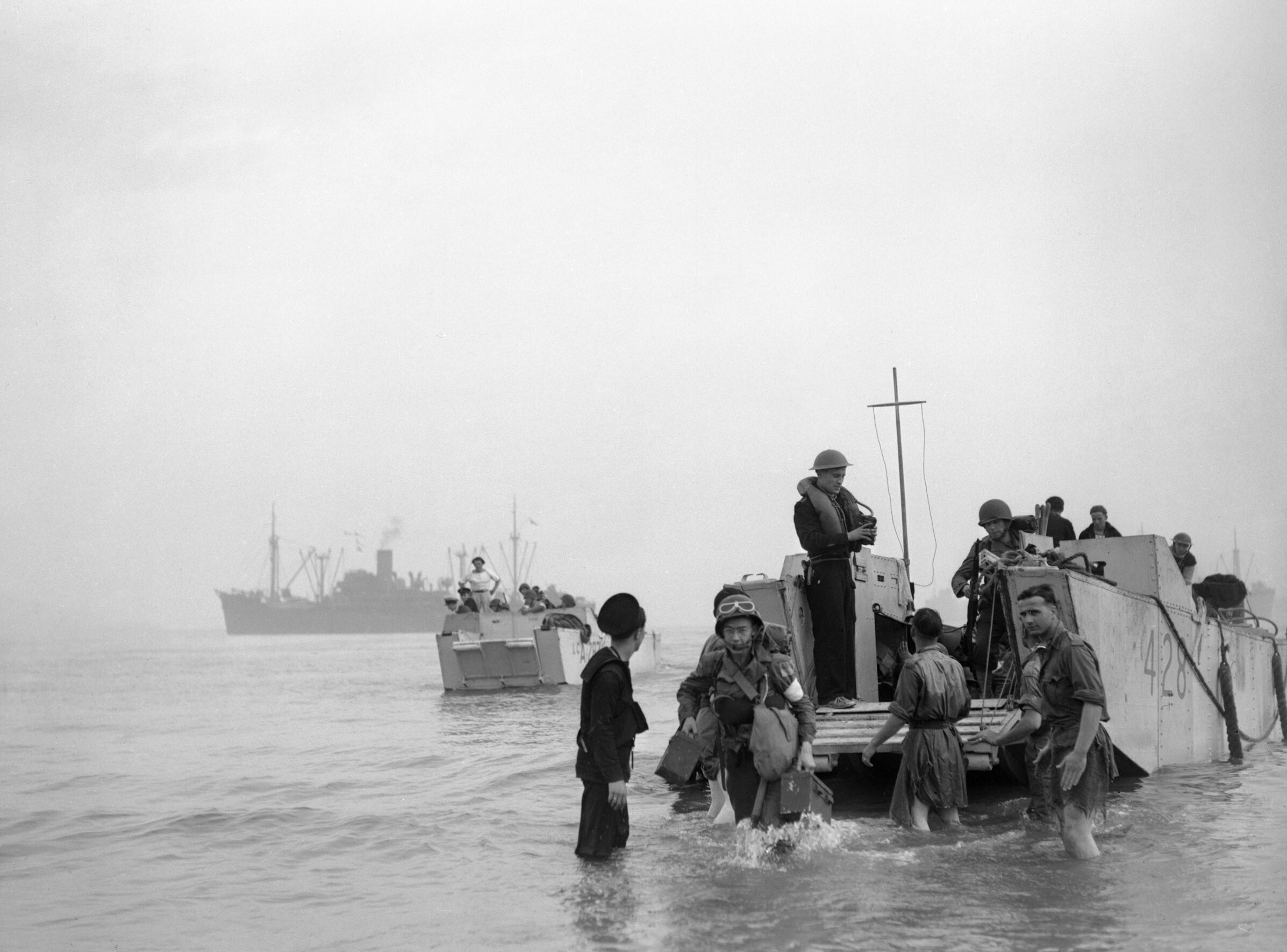 Troops and ammunition being brought ashore from LCAs (landing craft assault) at Arzeau in Algeria during Operation 'Torch', November 1942. Troops and ammunition for light guns being brought ashore from a landing craft assault (ramped) (LCA 428) on Arzeau beach, Algeria, North Africa, whilst another LCA (LCA 287) approaches the beach.